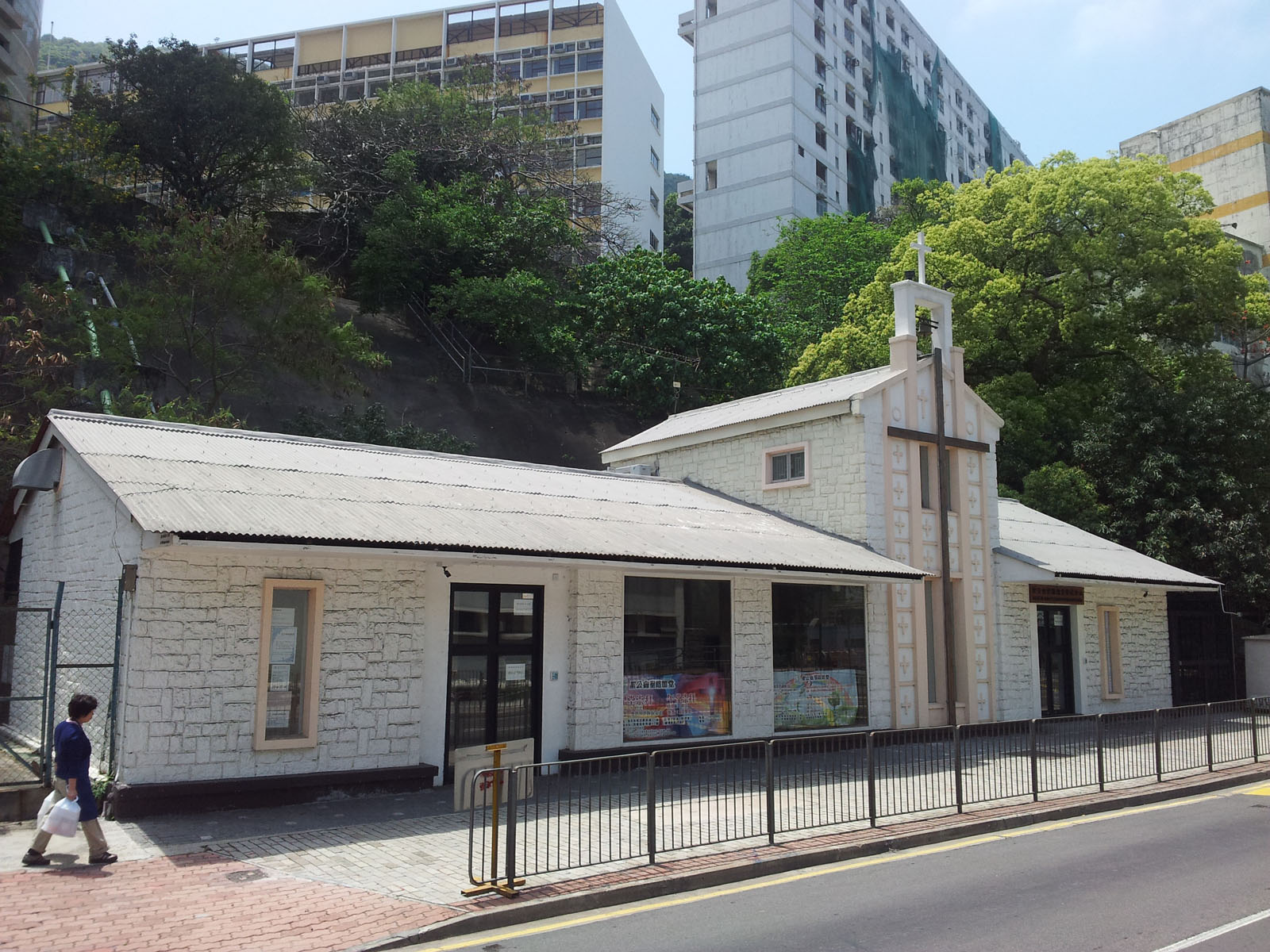 St. Luke's Chapel at No.47 Victoria Road